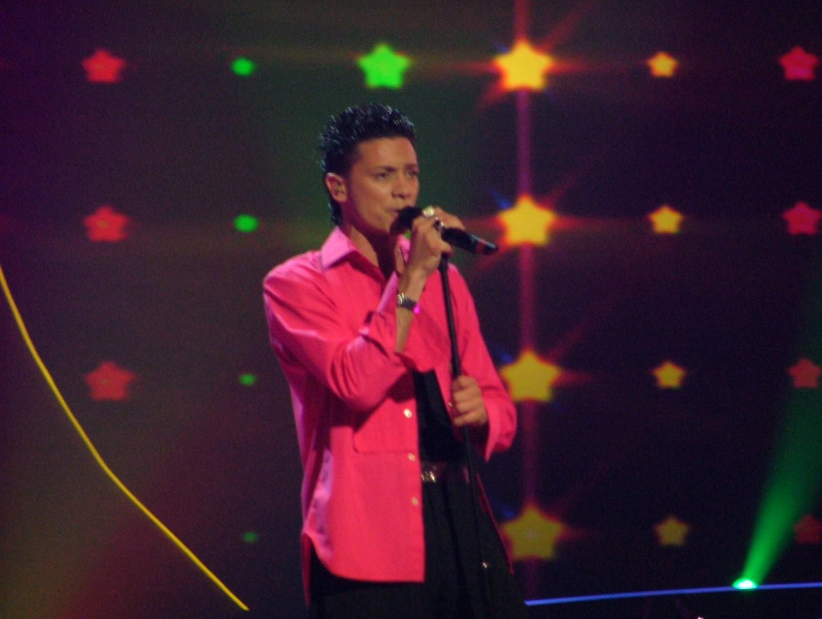 Piero Esteriore performing at the rehearsals of the Eurovision Song Contest 2004 semi-final.